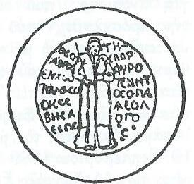 Theodorus II Palaiologus, despot of Moreas (Peloponnesus)